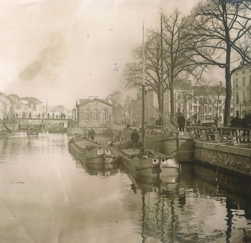 Anonymous photograph of Ninove city gate in Brussels (Centre d'Information, de Documentation et d'Etude du Patrimoine)